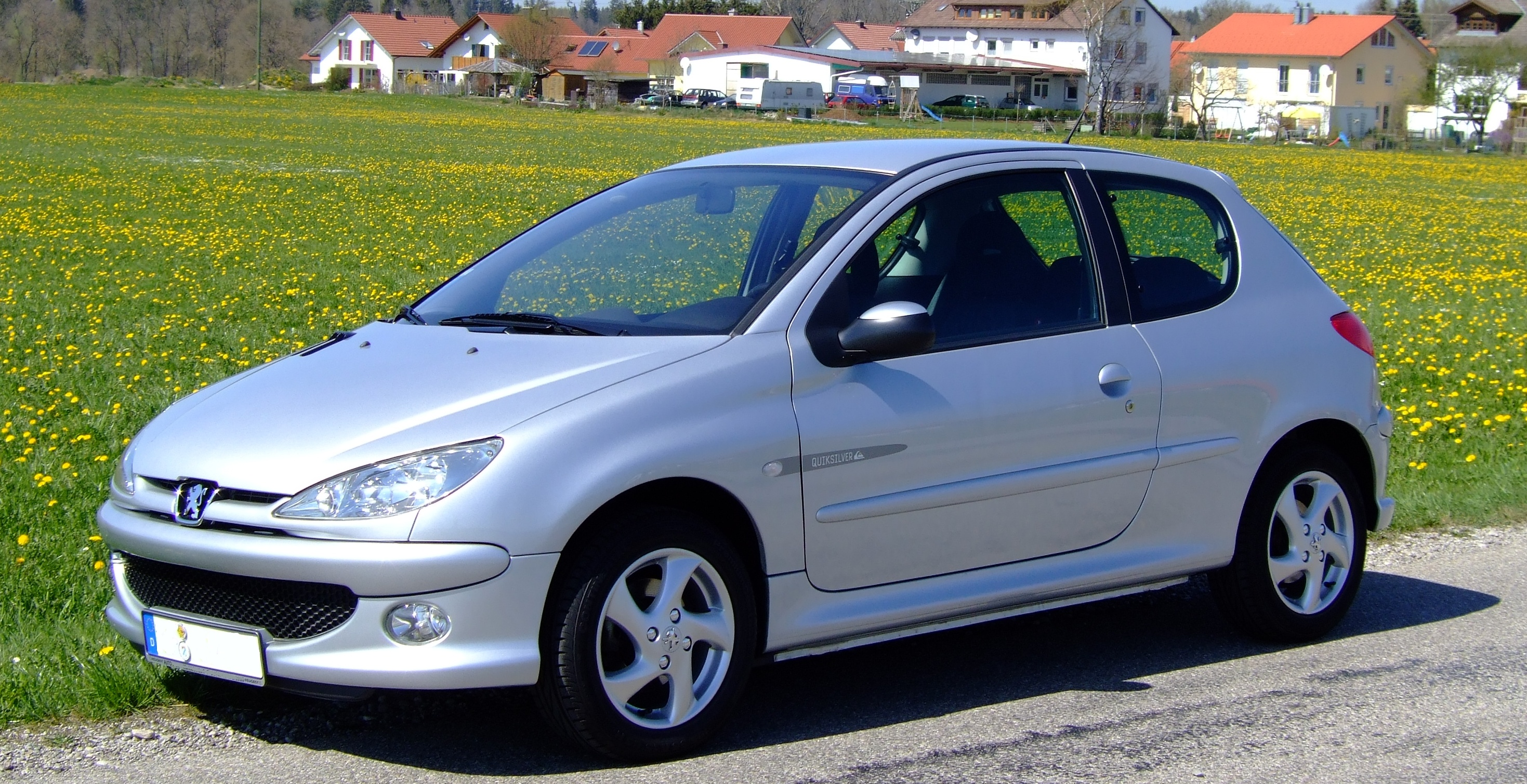 Peugeot 206 Quiksilver 90 (vintage 2004)